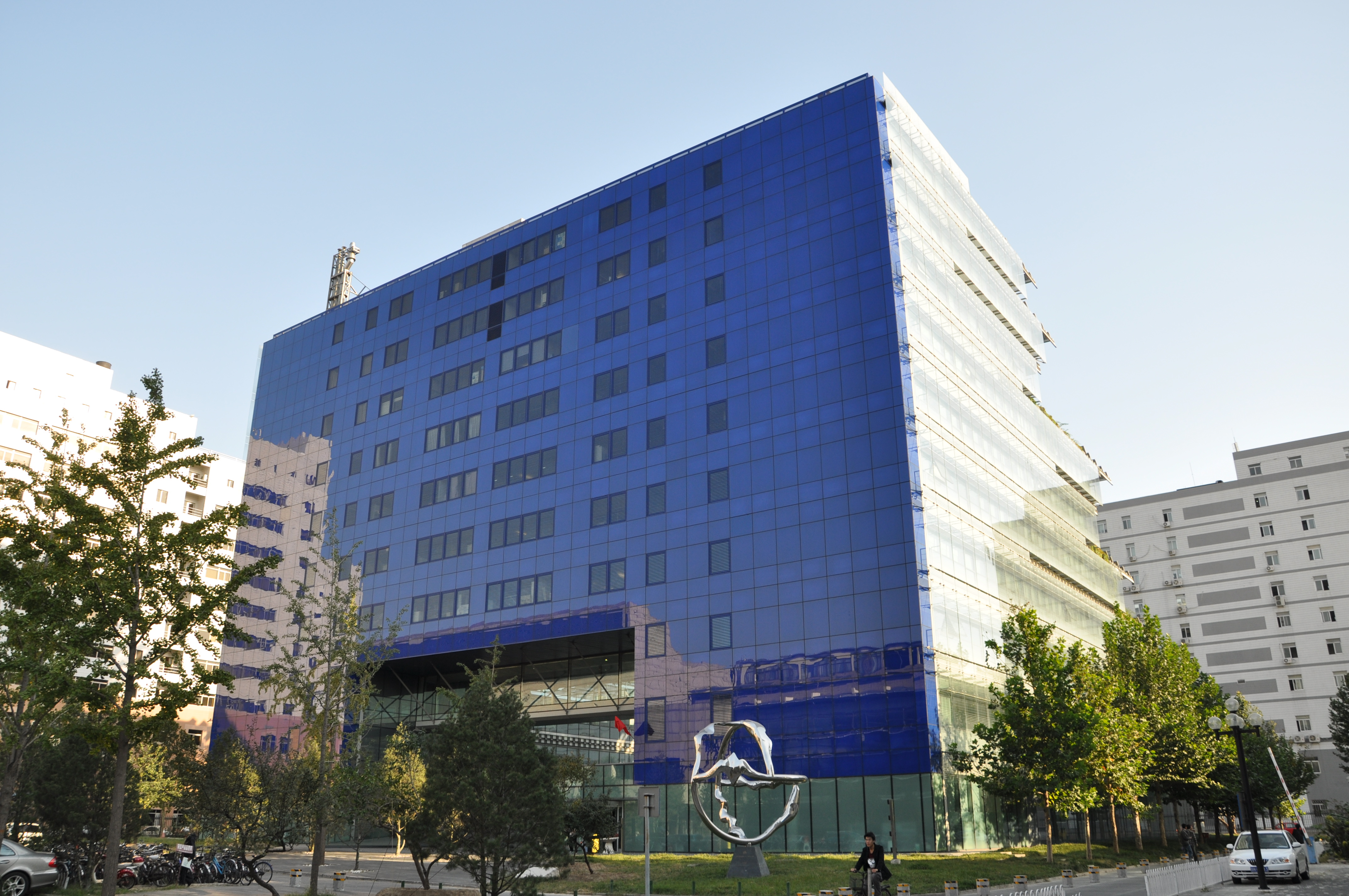 Sino-Italian Environment and Energy-efficient Building, pictrued from northwest.